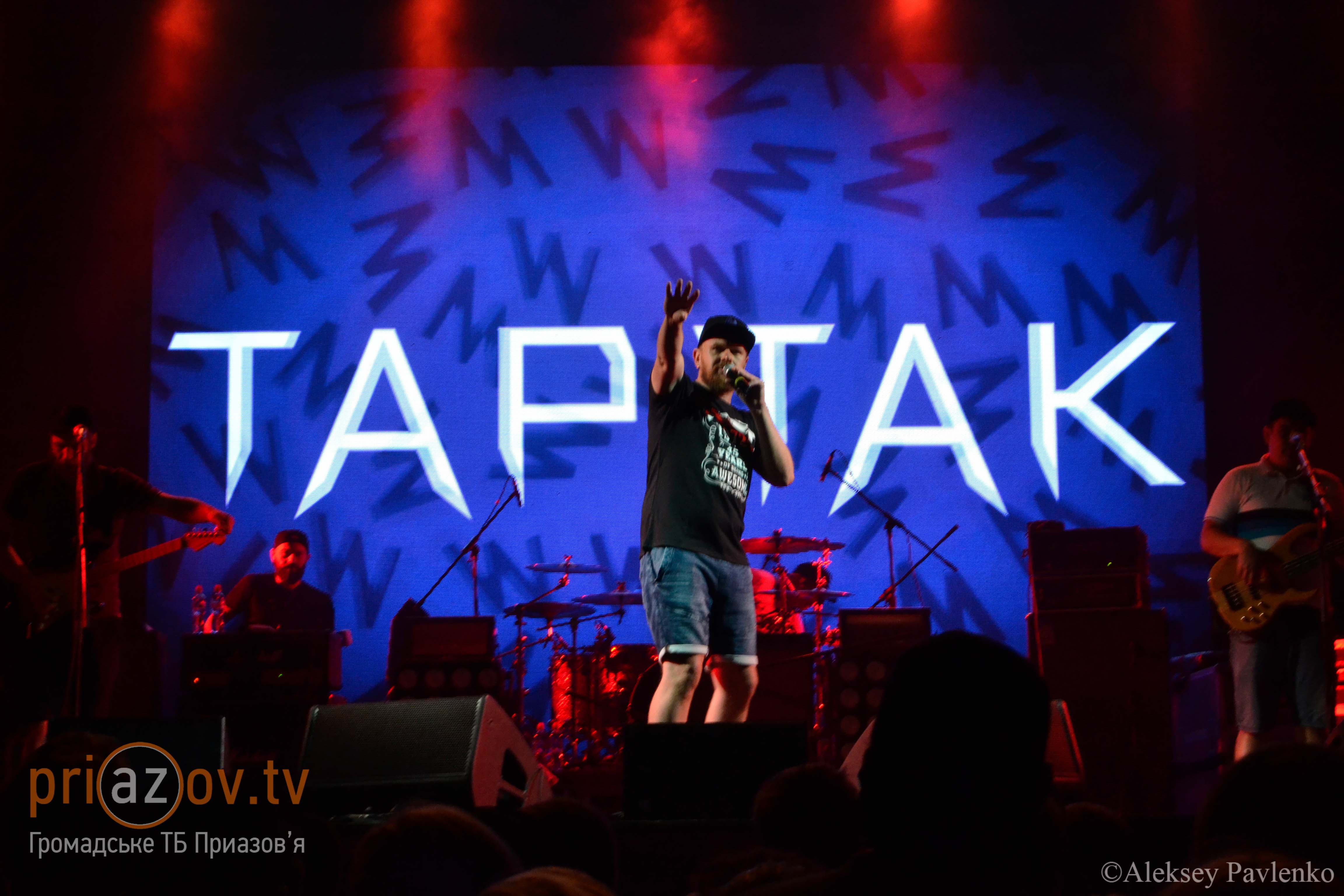 Ukrainian band Тартак (Tartak) at the MRPL City 2017 fest in Mariupol.